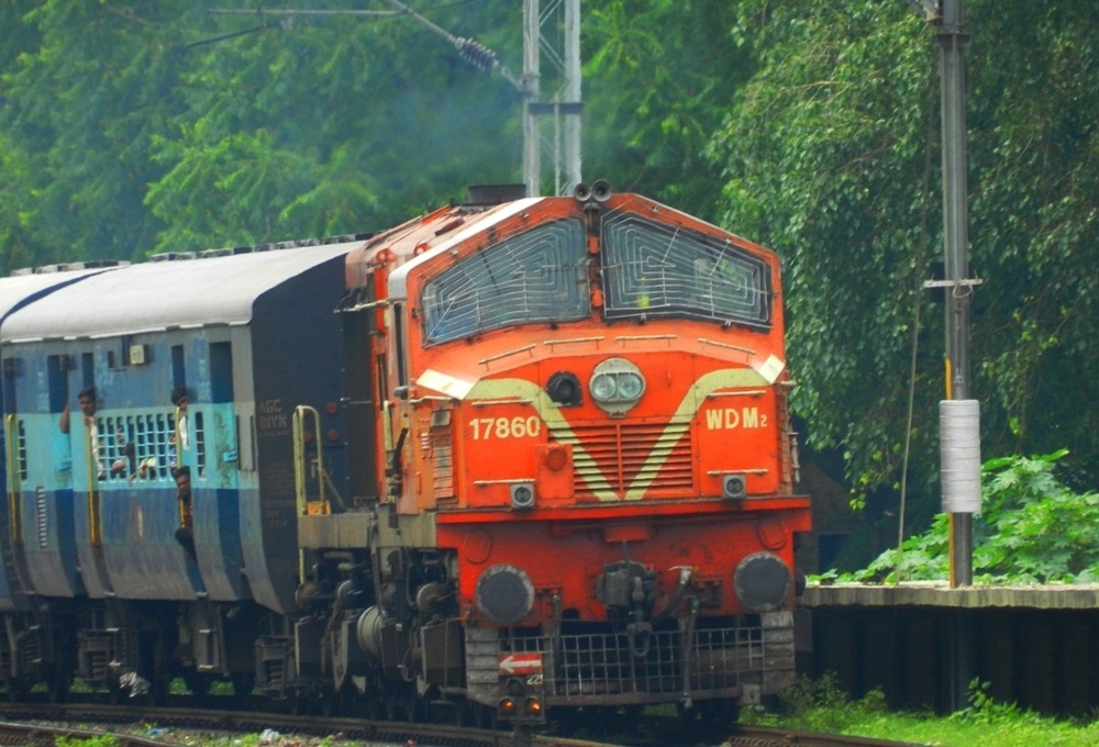 This photo of WDM-2 nicknamed as Jumbo was shot at Lucknow while it hauled in the Jhansi-Lucknow Intercity Express